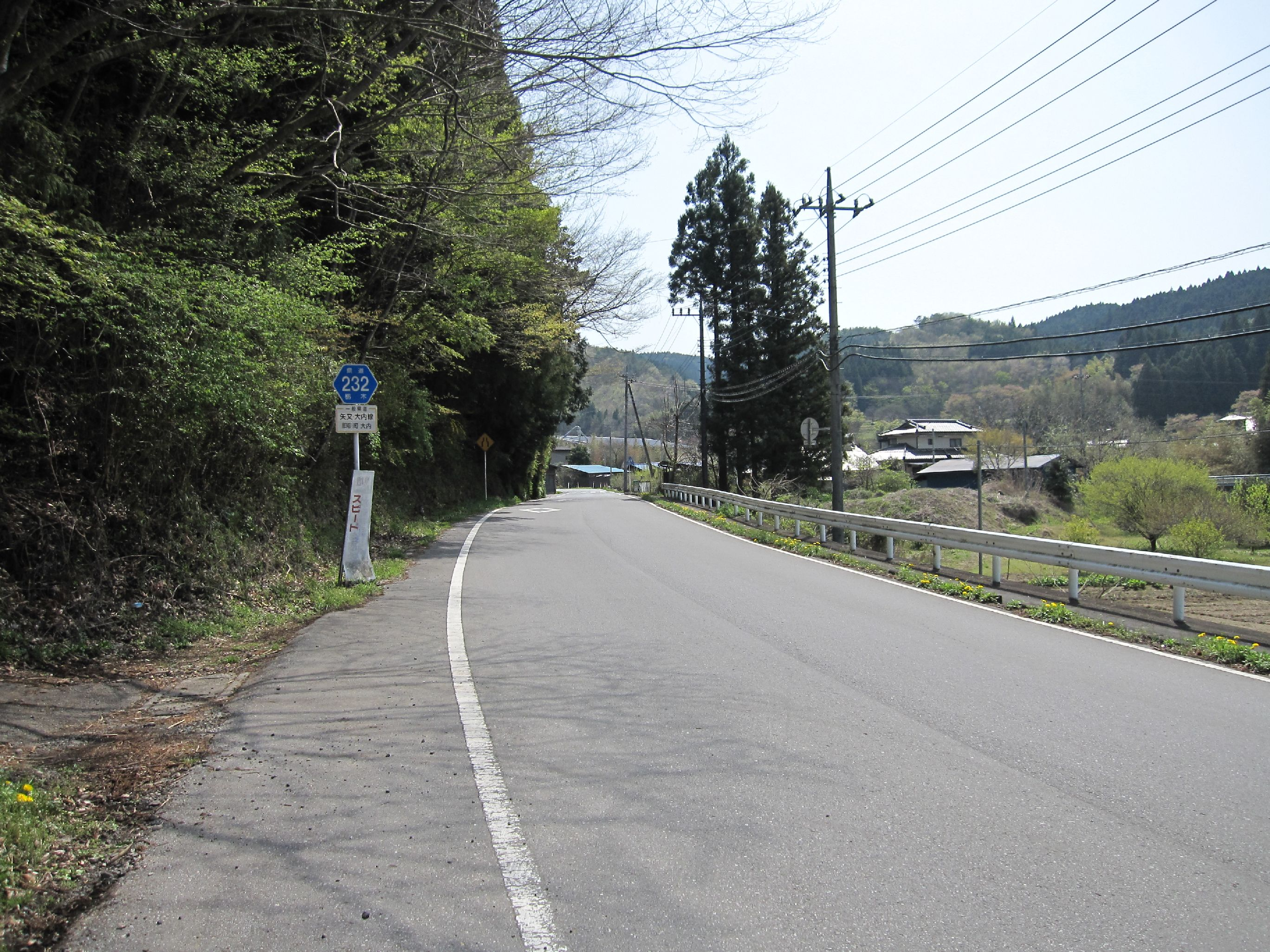 Tochigi prefectural road No.232 on Nakagawa town